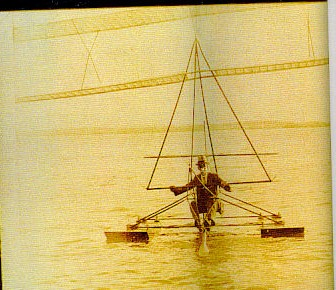 Early hang glider on floats with single hang point. Designed by George Spratt. 1929.